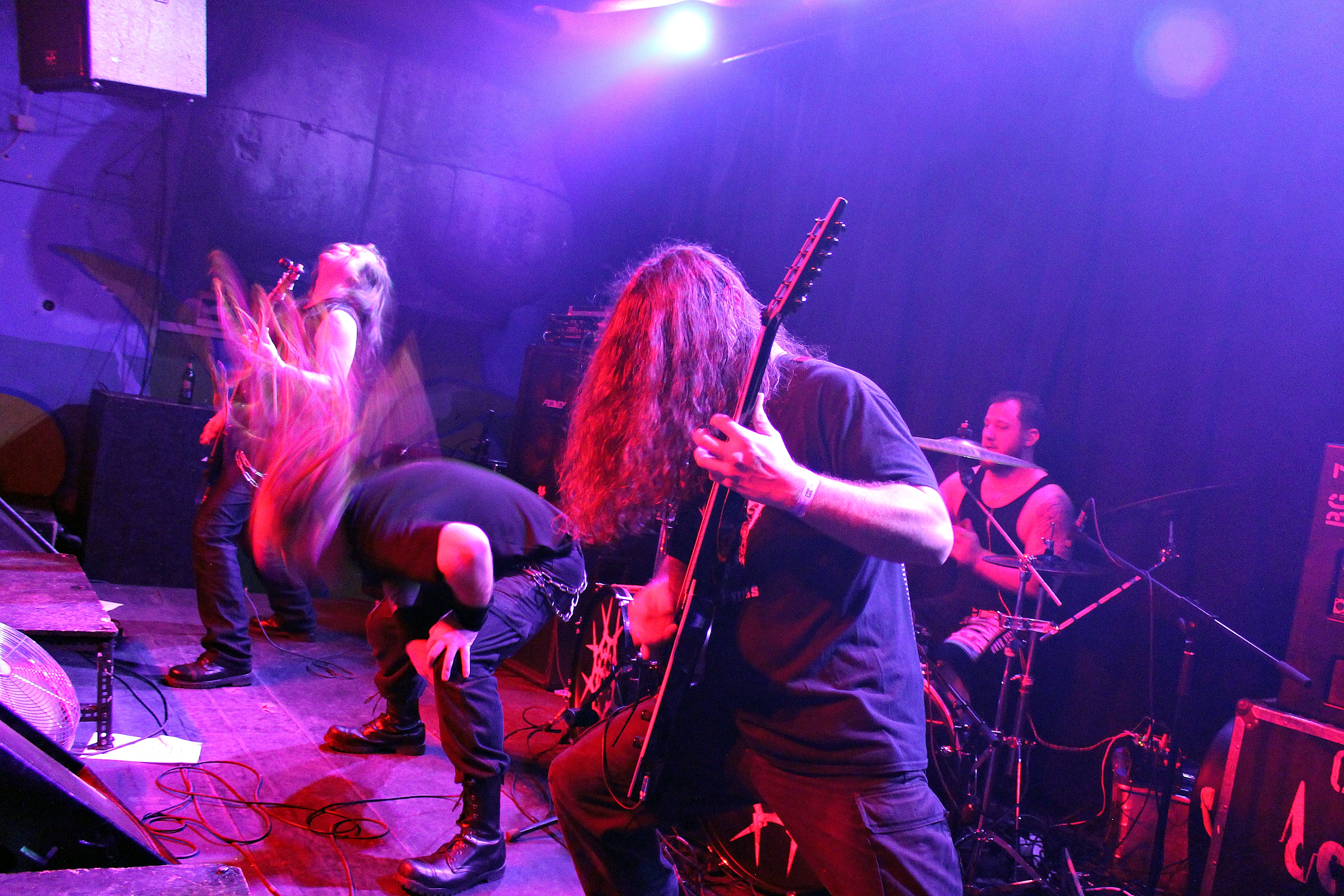 Angerseed playing live in a club in 2017. Photo: uknown